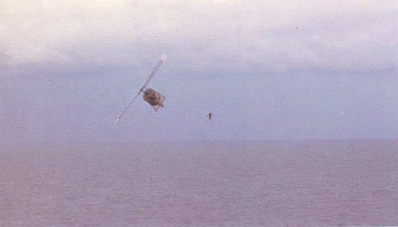 A VNAF pilot jumps from his UH-1 Huey after dropping off evacuees on USS Midway during Operation Frequent Wind